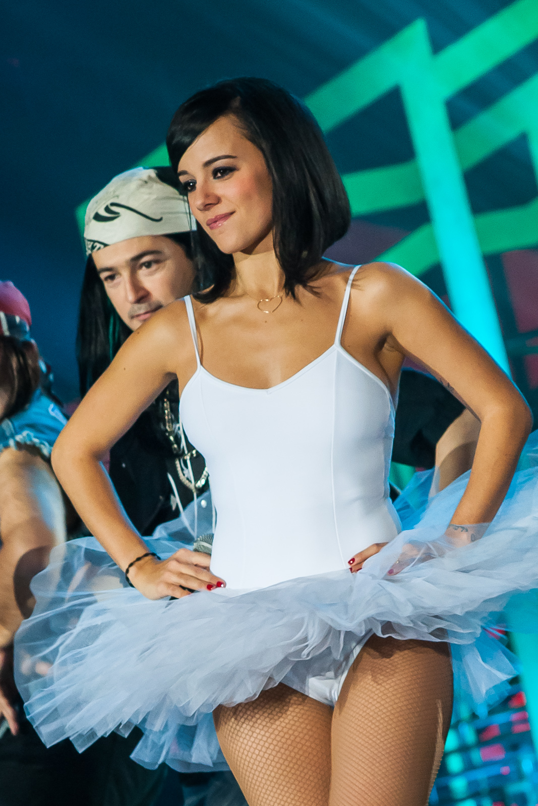 Alizée at Les Enfoirés charity concert in Lyon (4th of February, 2012)